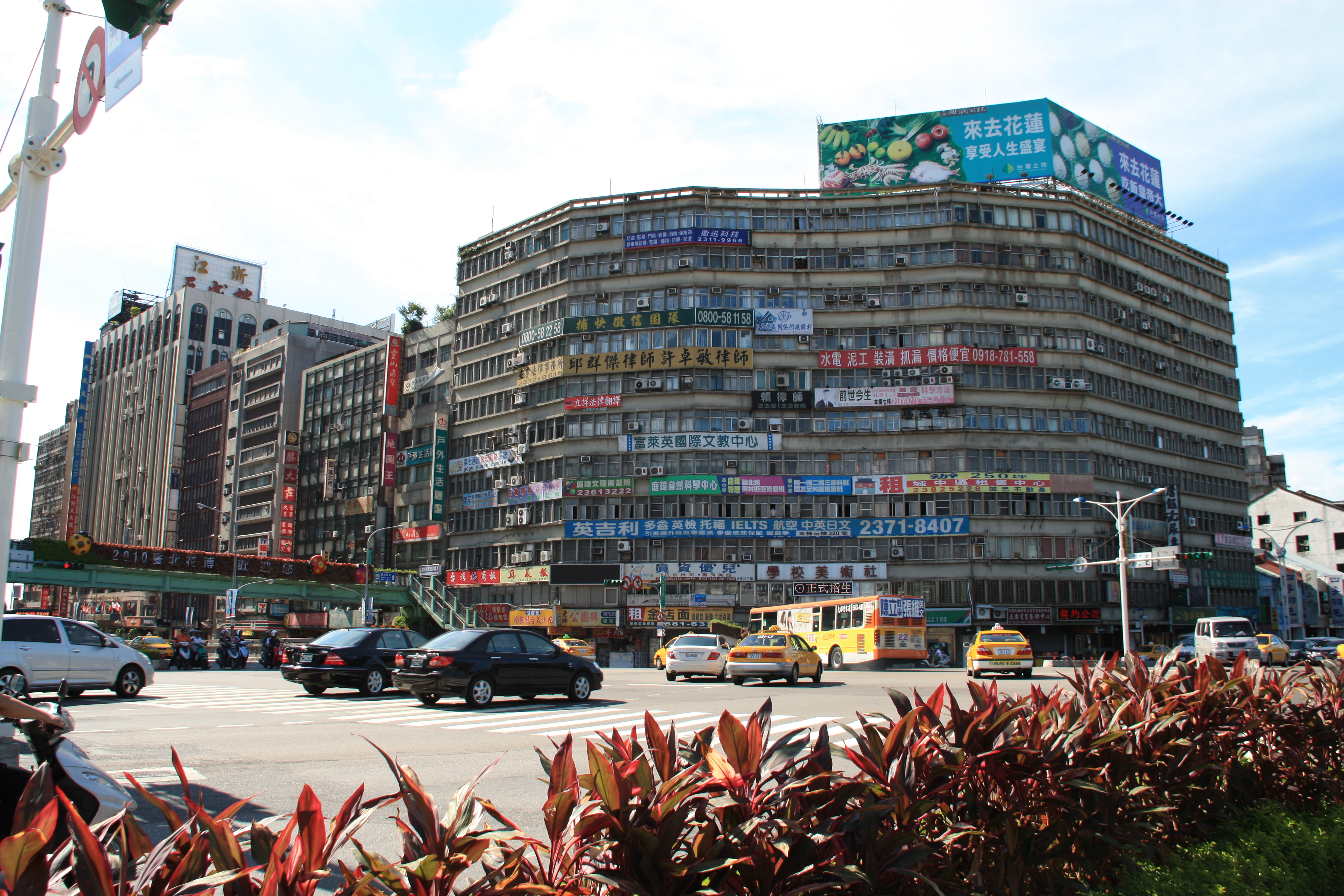 TáiběiZhōngzhèng DistrictZhōngshān South Rd - Zhōngxiào East/West Rd IntersectionView to NWCordyline fruticosa